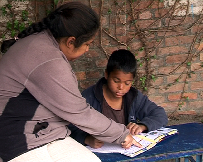 A nominee of CNN hero from Nepal.